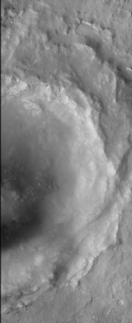 Crater Davies on Mars